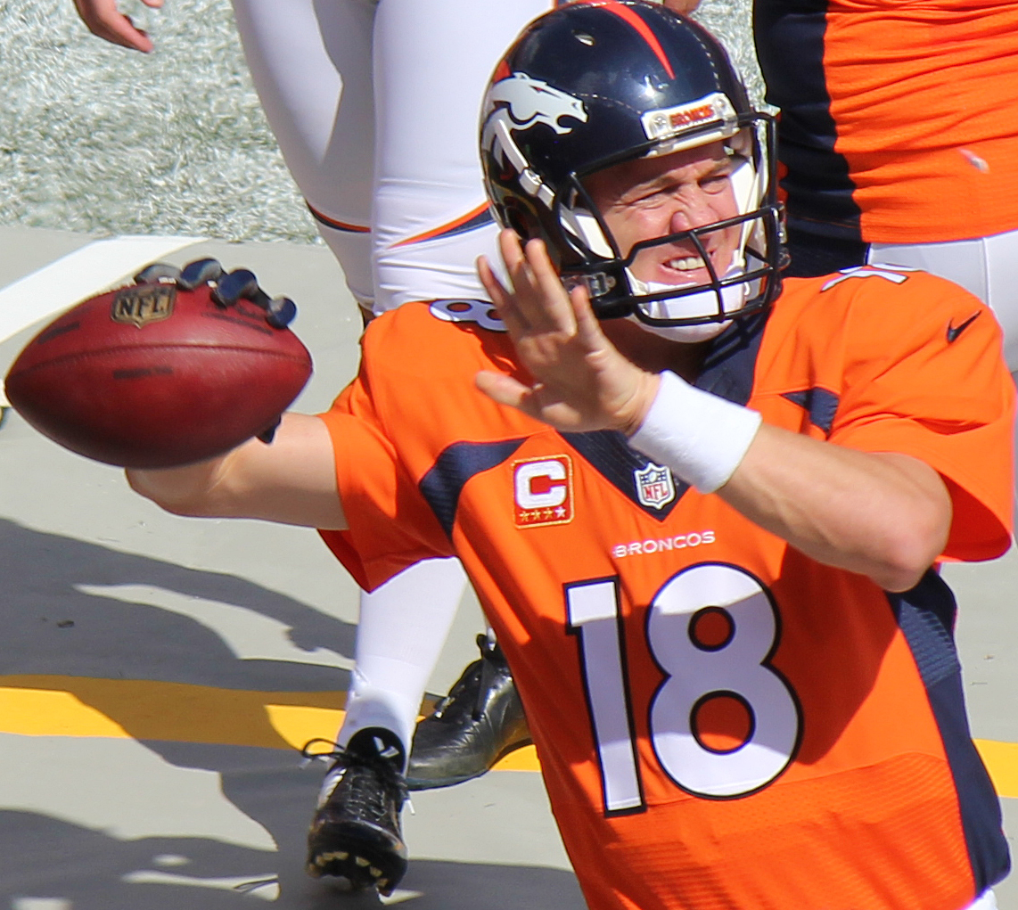 Peyton Manning practicing his passing on the sidelines. Sept. 14th 2014